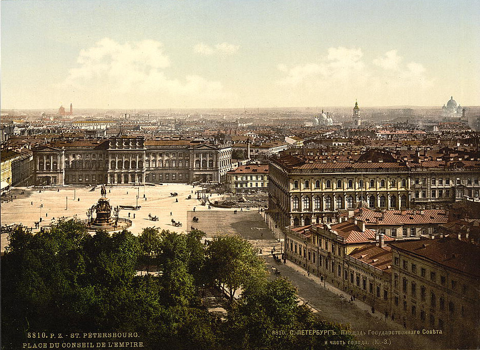 Place of the Imperial Council, West Side, St. Petersburg, Russia. – Monochrom image of St Isaac's Square and the Saint Petersburg skyline, 1890s.